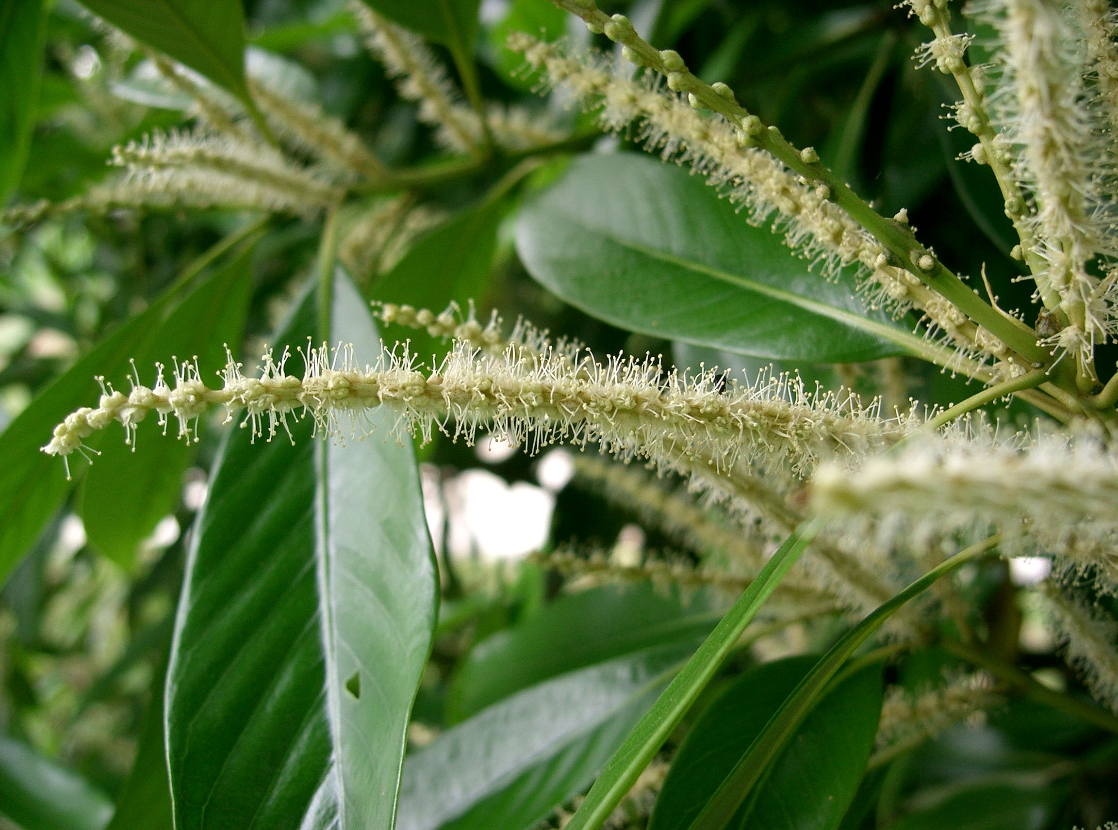 Lithocarpus edulis